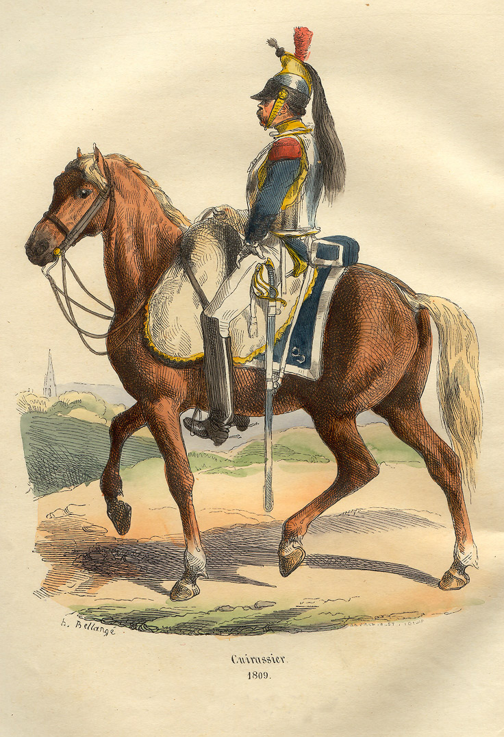 French cuirassier in 1809. From book of P.-M. Laurent de L`Ardeche «Histoire de Napoleon», 1843